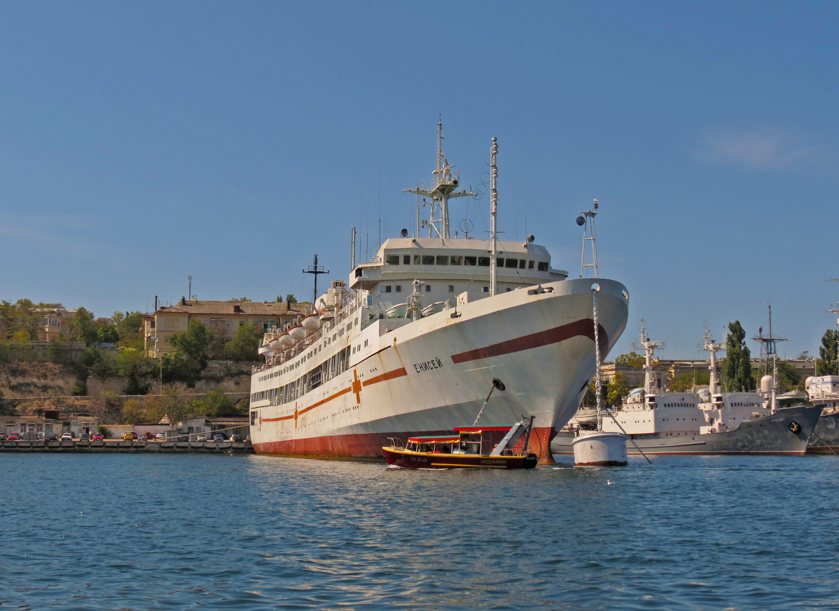 Hospital ship Yenisey and Kildin (right), Sevastopol, Ukraine